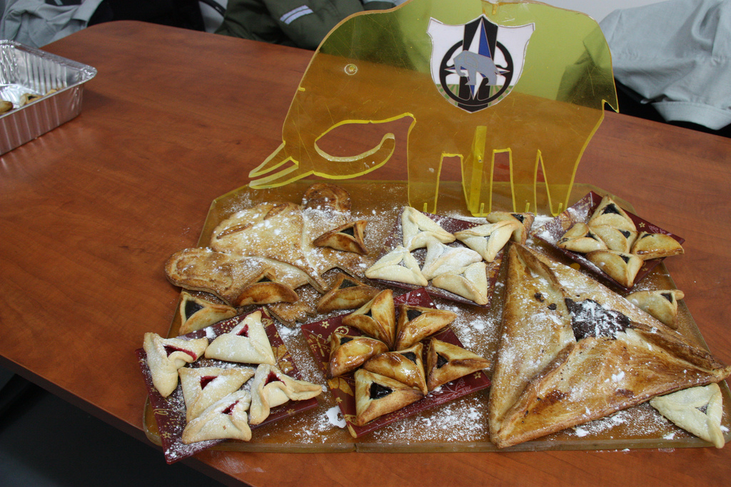 The IDF Logistics and Technology Branch, which among other duties, oversees food service throughout the army, celebrates the Jewish holiday of Purim with a hamentaschen baking competition. The competition was led by the Chief Logistics Officer, Brig. Gen. Mufid Ghanam, and consisted of seven teams from all IDF units. The hamentaschen were tasted and ranked by the judges: Major Yossi Nidam, Head of the Nutrition Department in the Logistics Branch; Chief Warrant Officer Eli Alfasi, Head of the IDF Chef Training Program; and a contestant from the Israeli reality TV show 'Master Chef', Aviva Pivko. At the end of the competition the judges announced the winning hamentaschen bakers: 1st place: Central Command 2nd place: Logistics and Technology Branch 3rd place: Southern Command